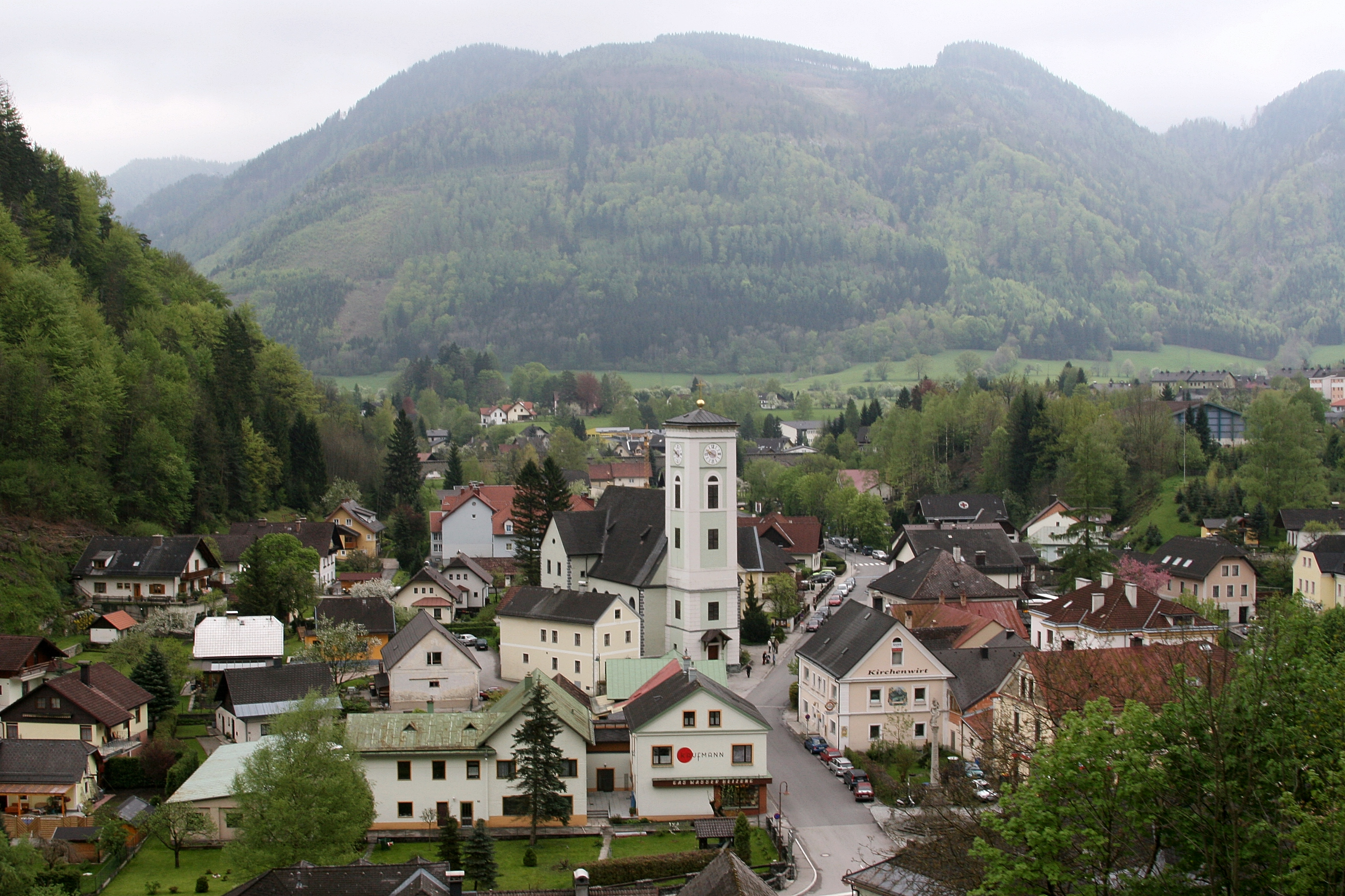 Gaming in Lower Austria, western view.